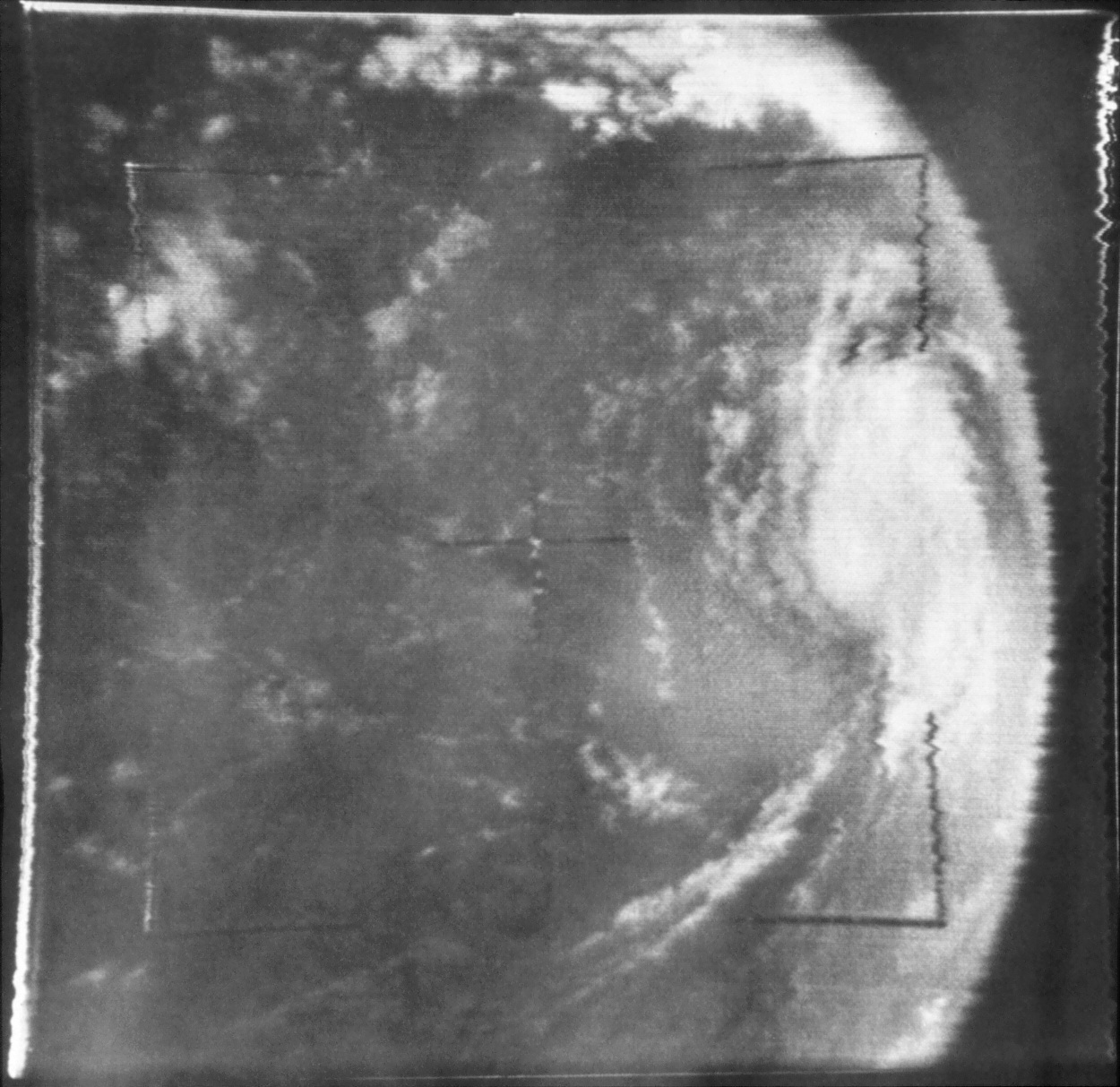 Hurricane Betsy as photographed from TIROS IX